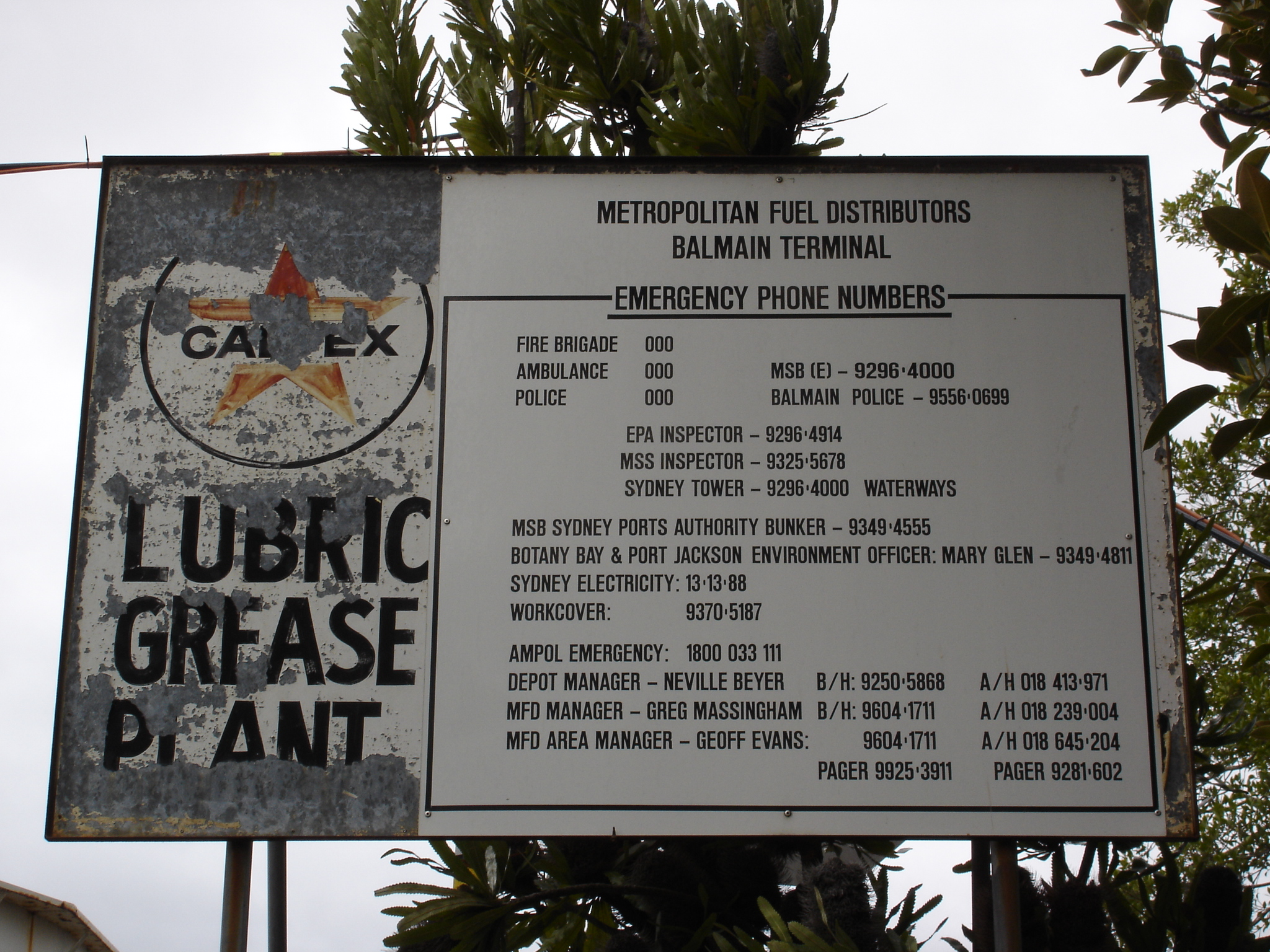 Ballast Point, Birchgrove, New South Wales, Australia. Taken by user Amitch on 11/6/06.